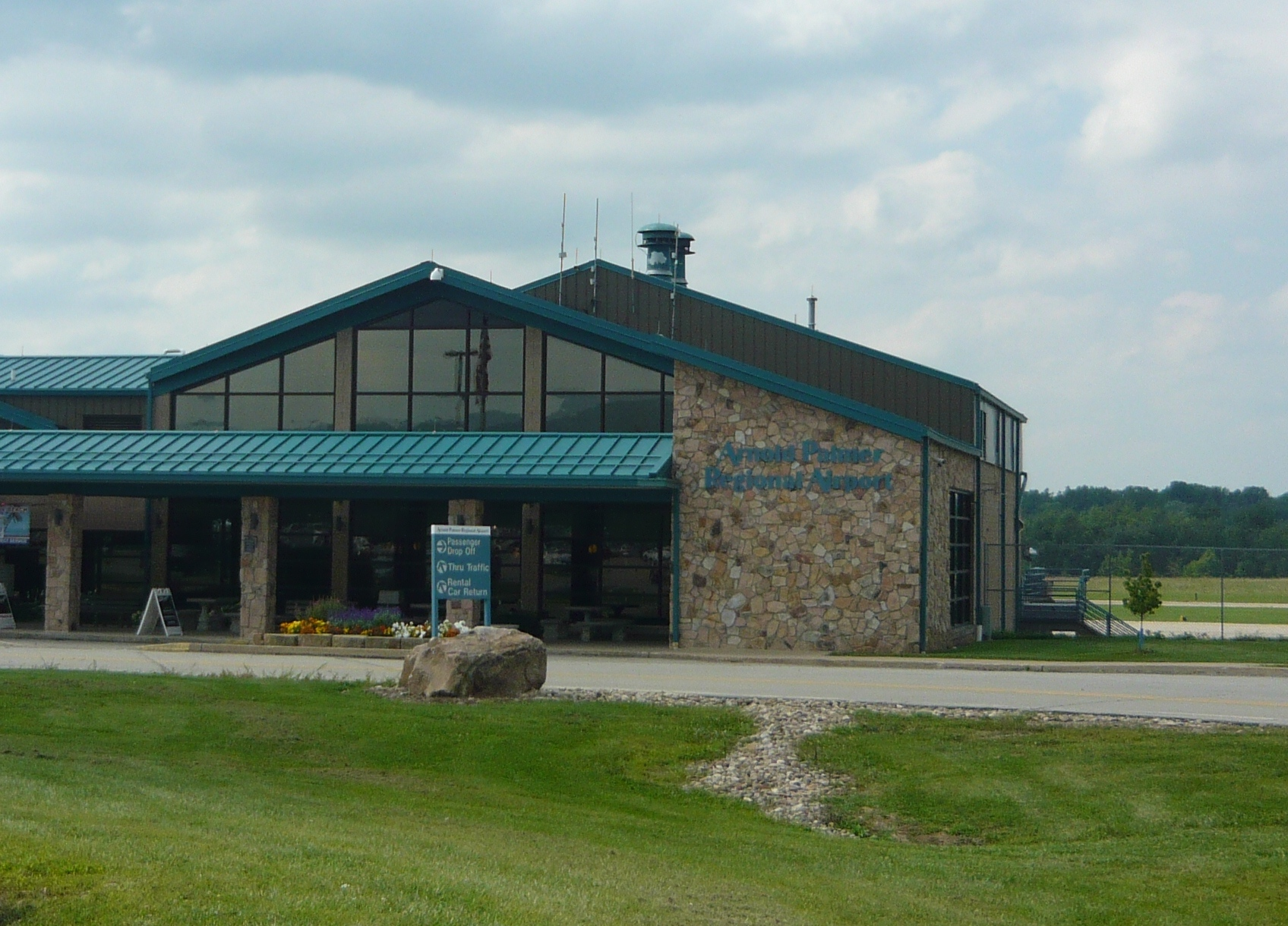 Terminal building at Latrobe Airport (Arnold Palmer Regional Airport), 148 Aviation Lane, Unity Township, Westmoreland County, Pennsylvania. IATA code is LBE.